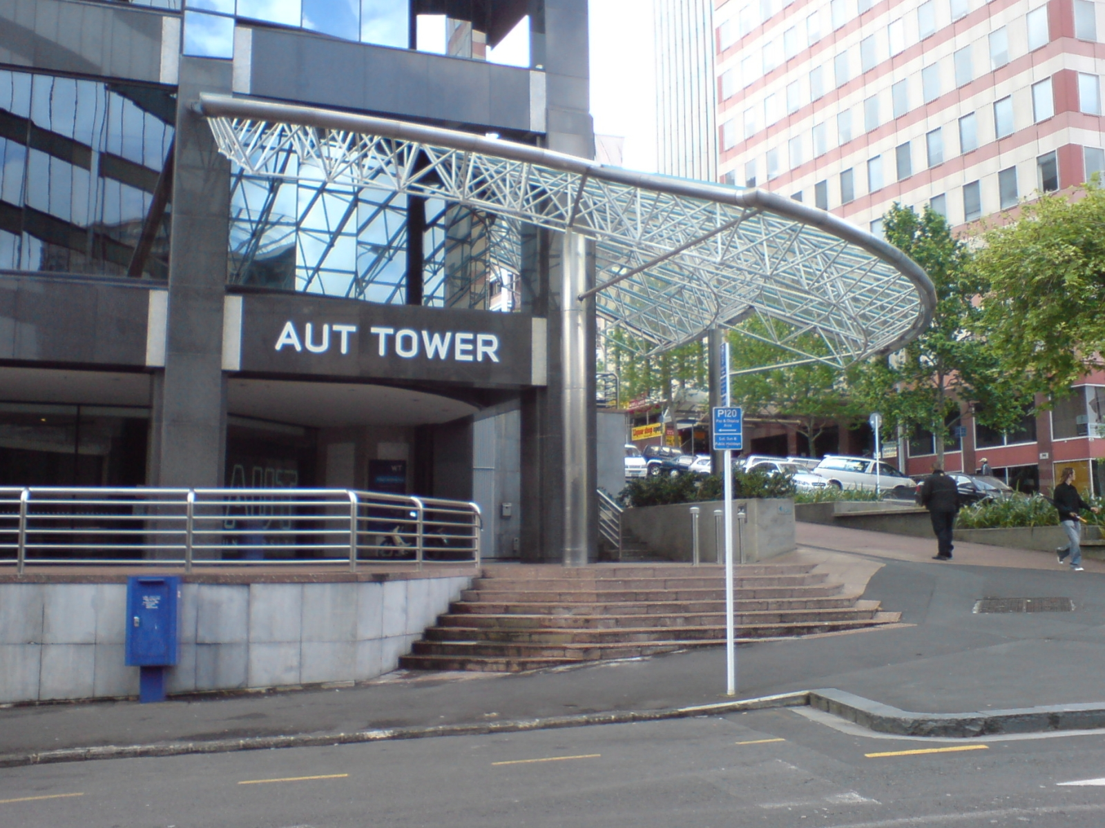 One of the main city buildings of the Auckland University of Technology, Auckland CBD, New Zealand.